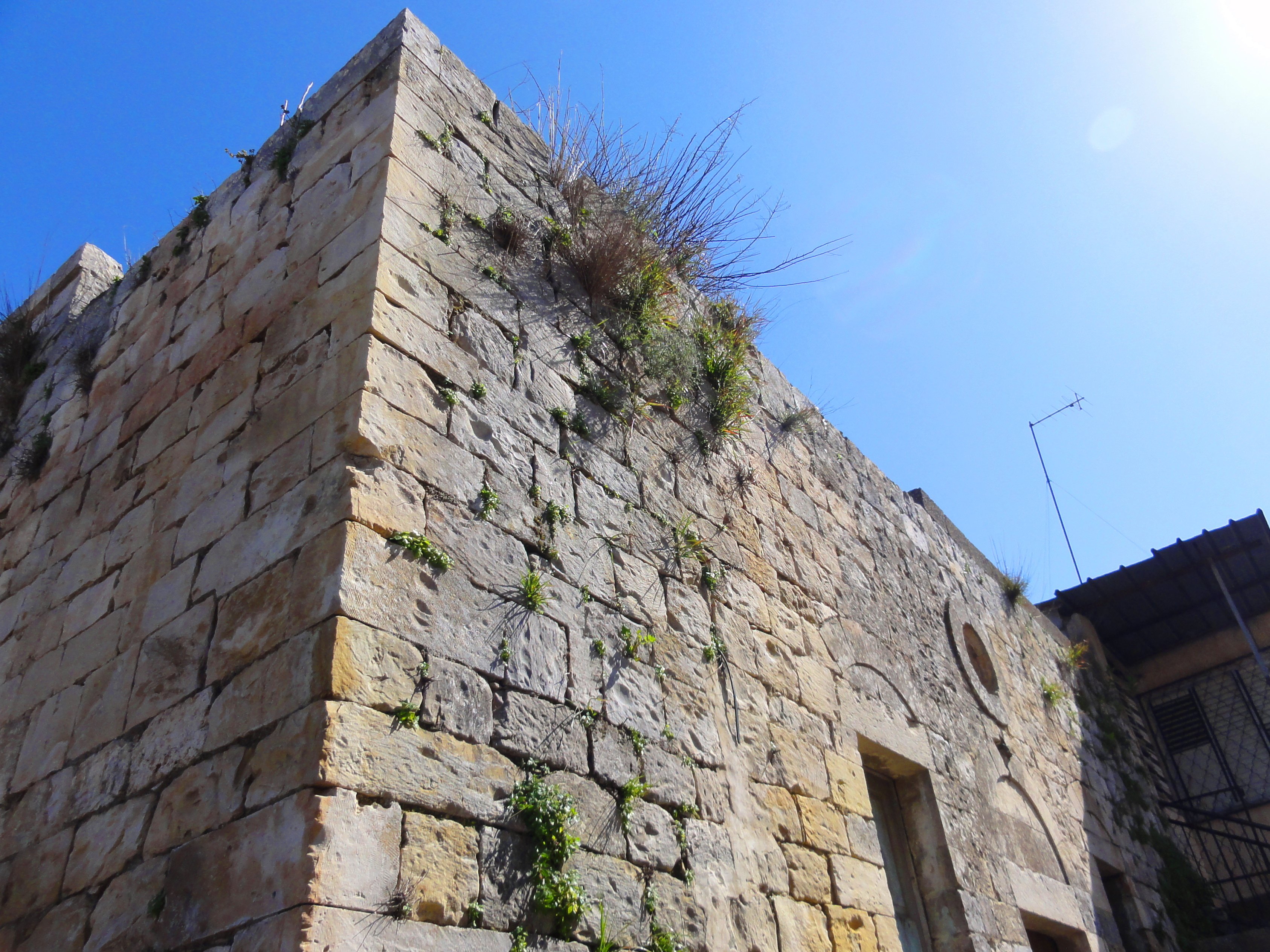 Old Church